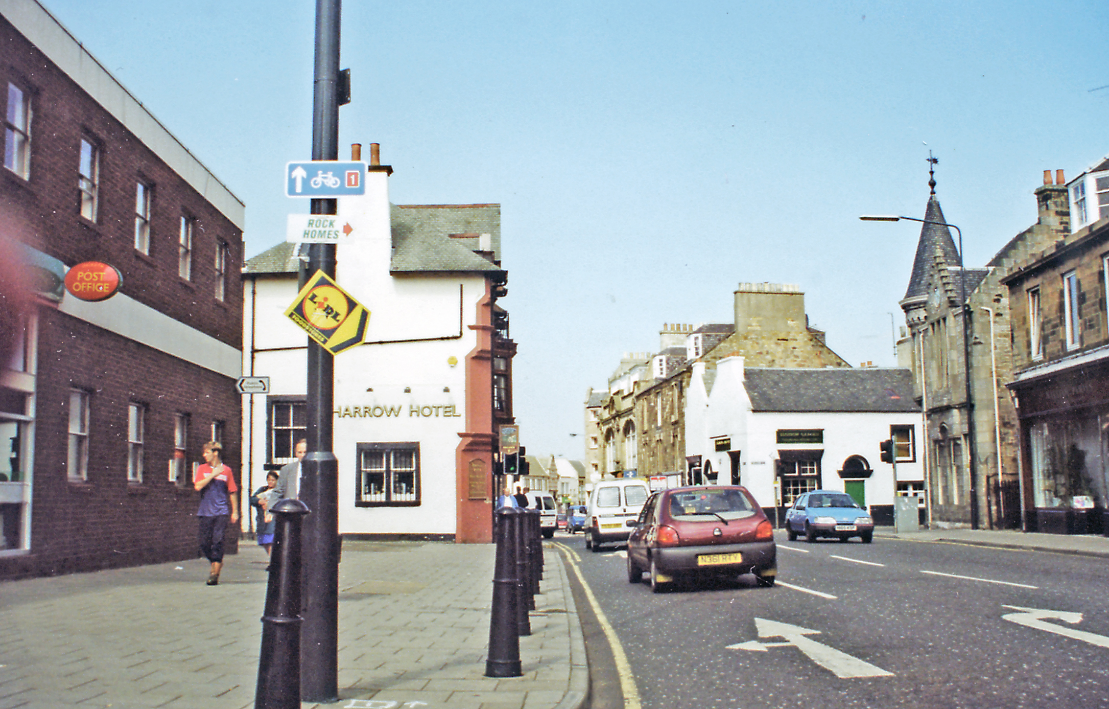 Dalkeith: Eskbank Road by site of former railway station, 2000. The station had been on the left, but as it and the passenger service from Edinburgh via Eskbank ceased on 5/1/42, goods on 10/8/64, it is no wonder there was apparently no trace of it in 2000. (It had probably been where the Post Office is).